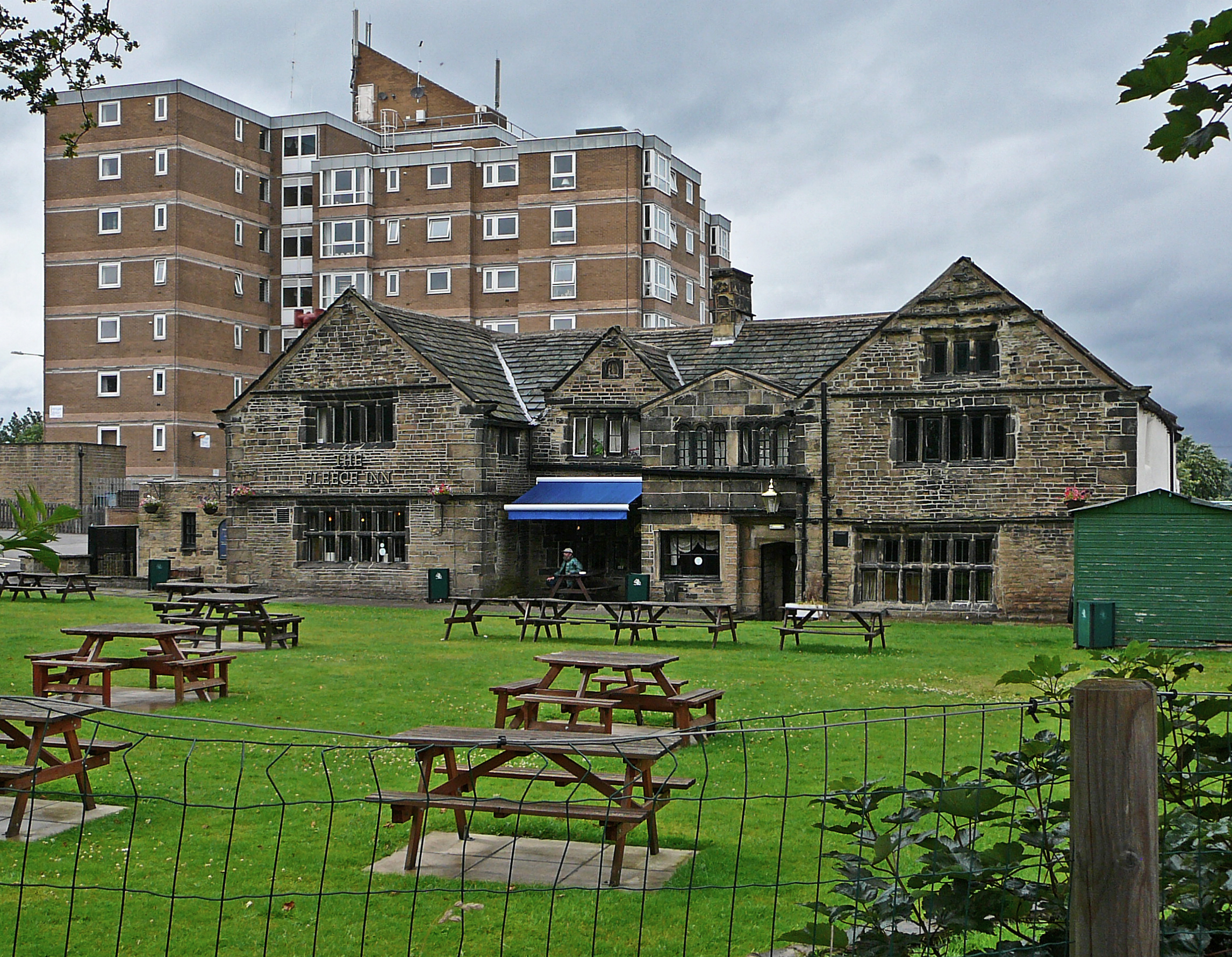 The Fleece on Westgate in Elland Road, West Yorkshire. Taken on the 26th of July 2009.